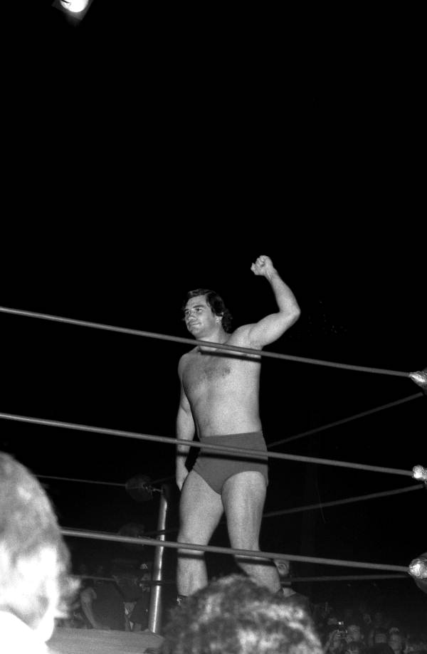 Jerry Brisco in 1979